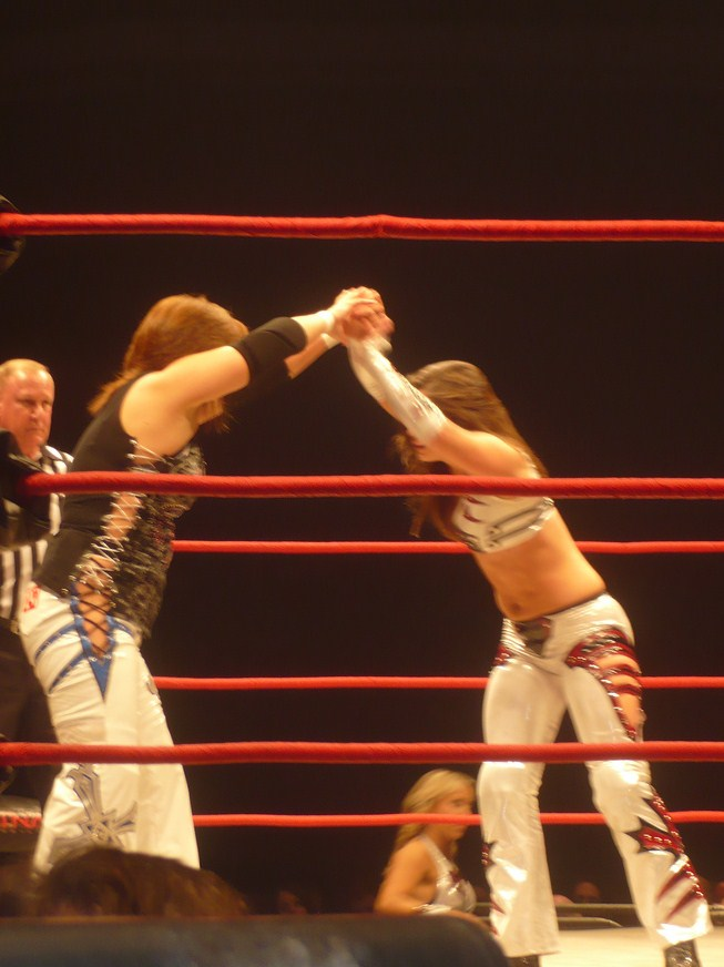 TNA wrestling Knockouts Ayako Hamada and Sarita